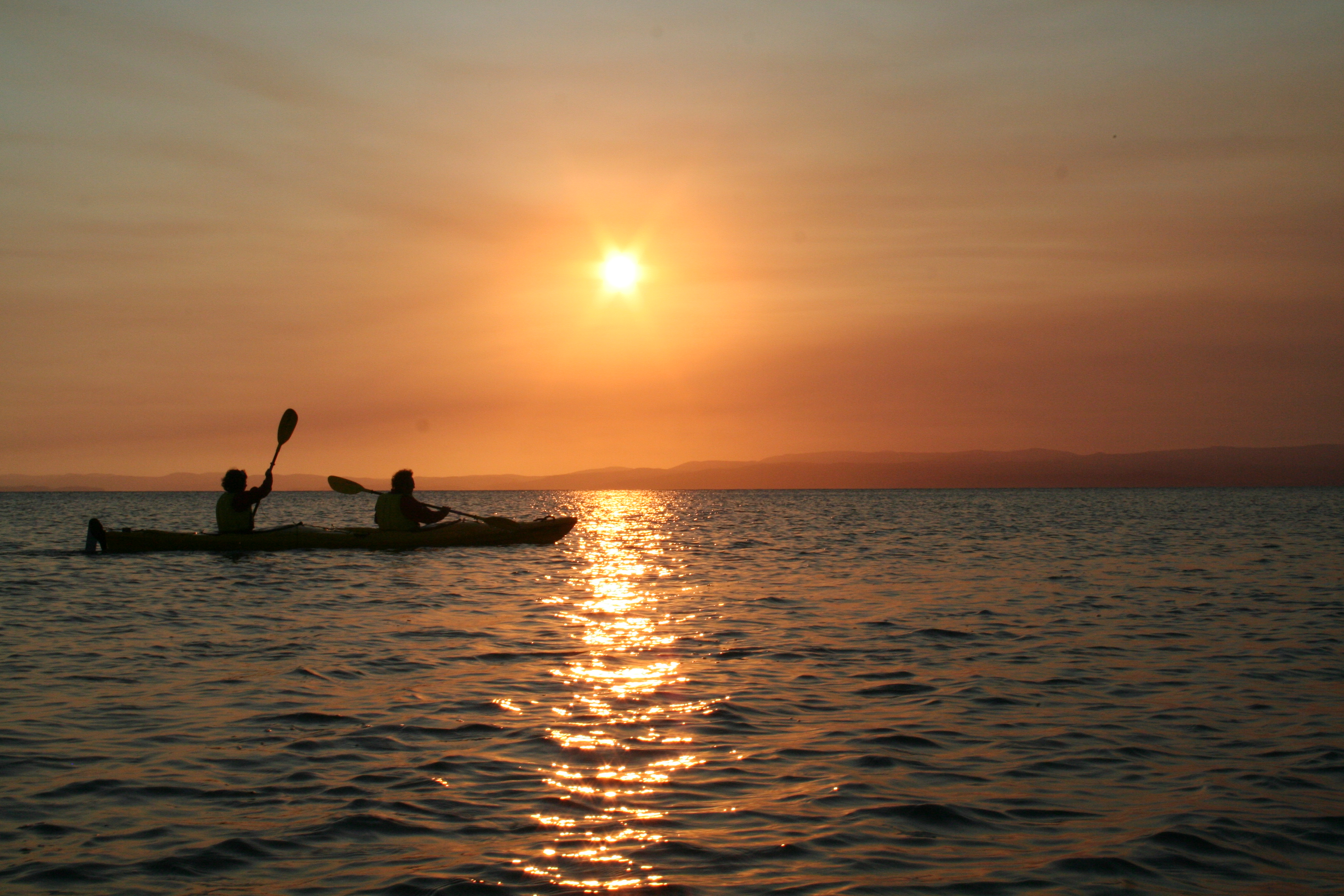 Coles Bay, Freycinet National Park